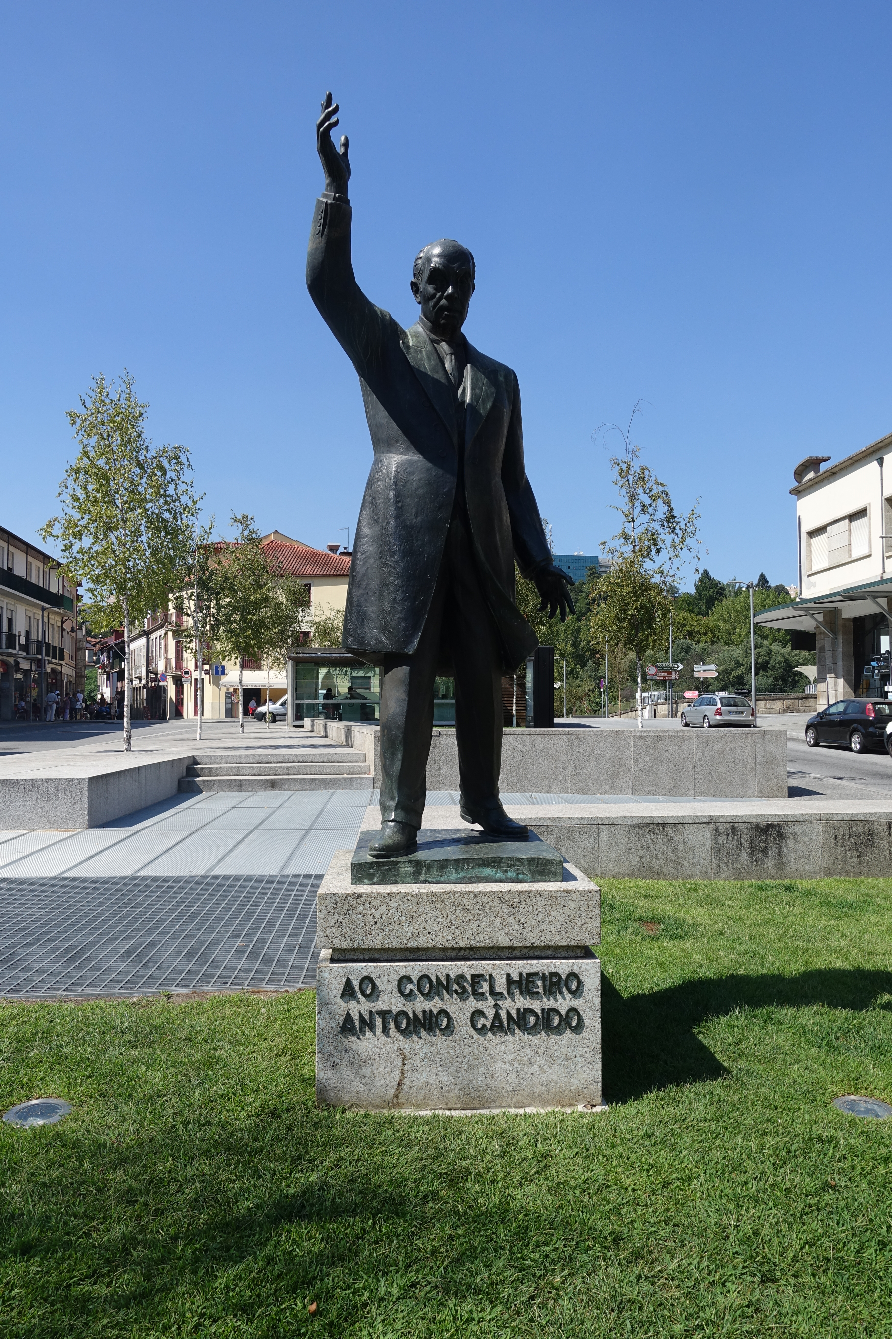 Statue of António Cândido, Amarante Portugal.